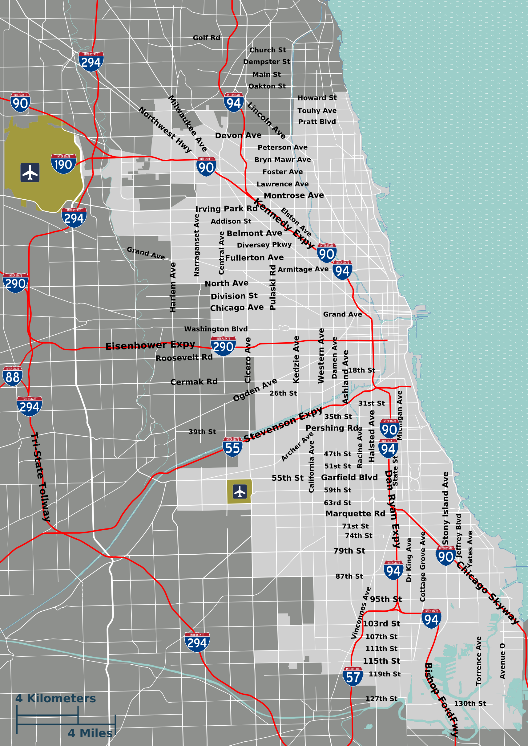 Chicago overview map